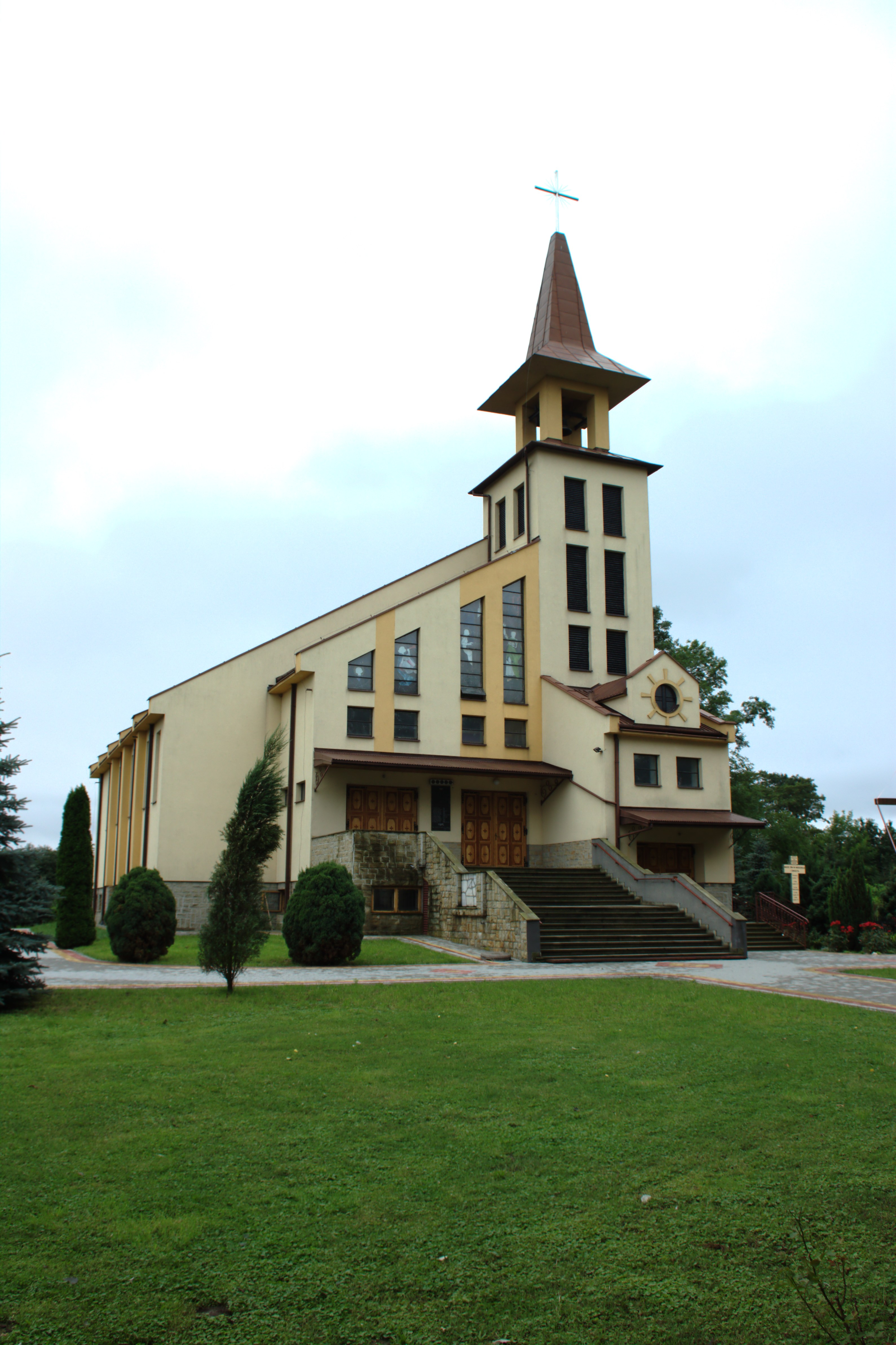 View of the church in Skołoszów, Podkarpackie voivodeship, Poland